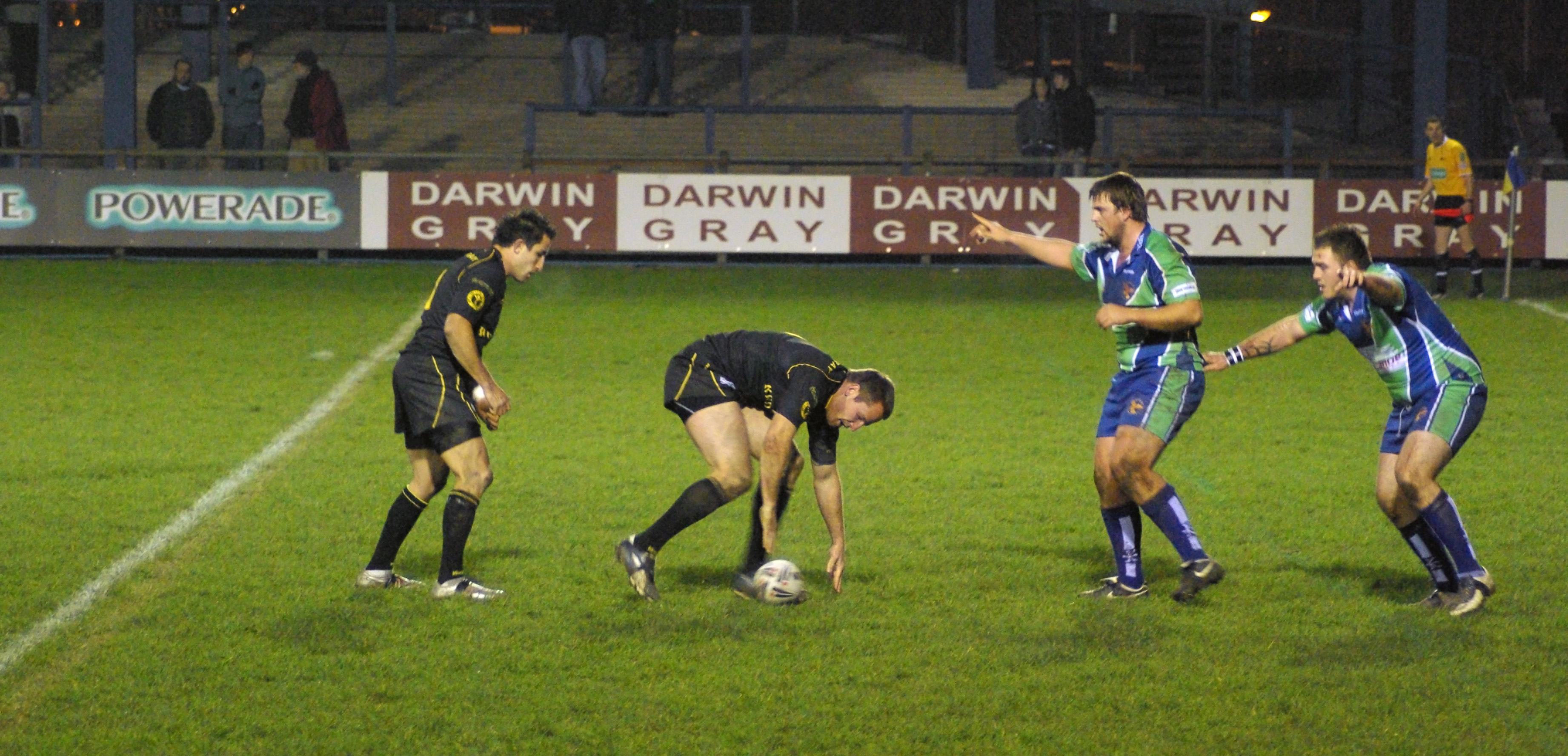 Telephoto test from a Celtic Crusaders game. It was an evening game so not great light. Also a good test of the highest iso settings.